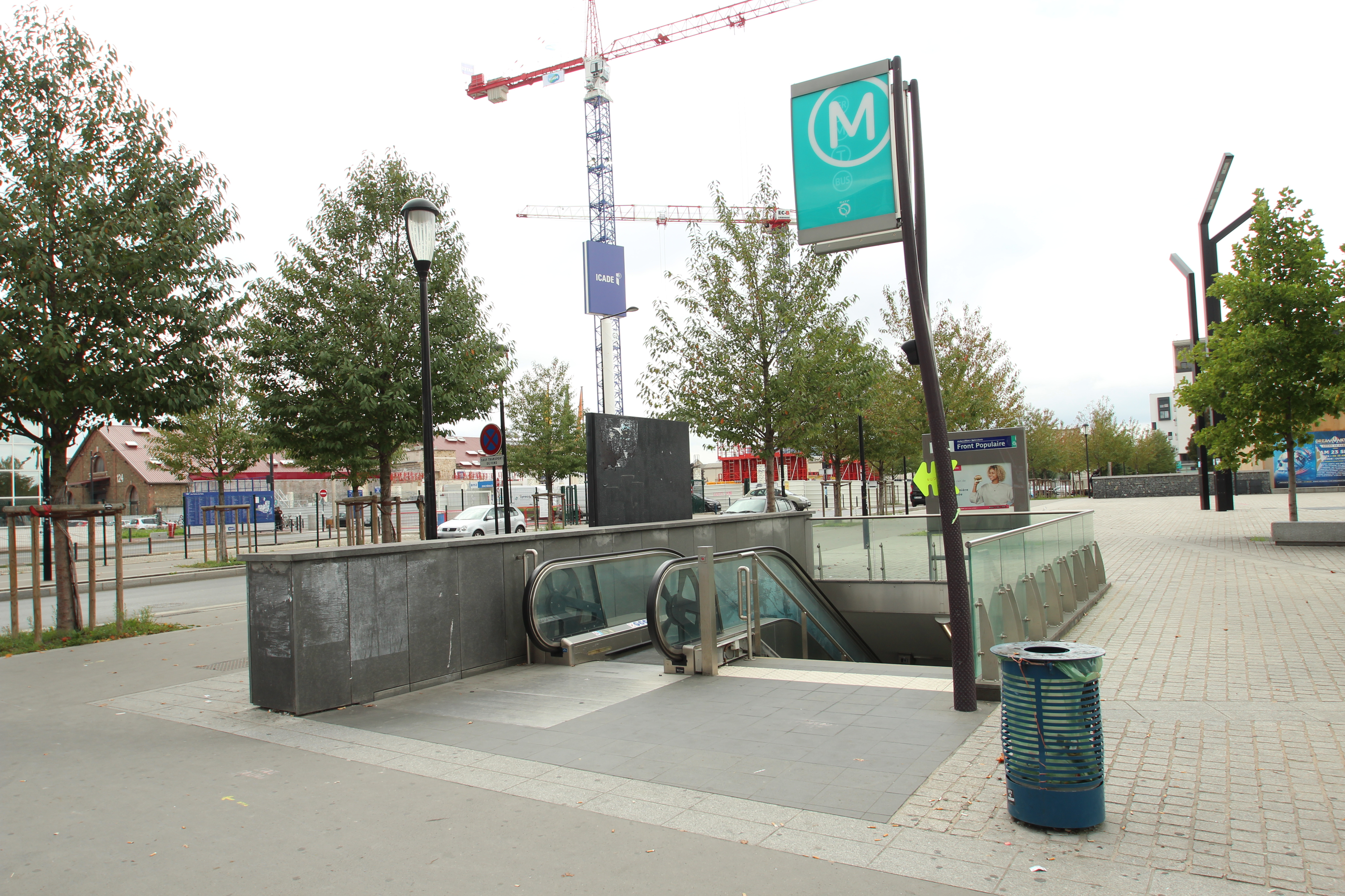 Front Populaire place in Aubervilliers, France. Object location48° 54′ 24.12″ N, 2° 21′ 59.04″ E